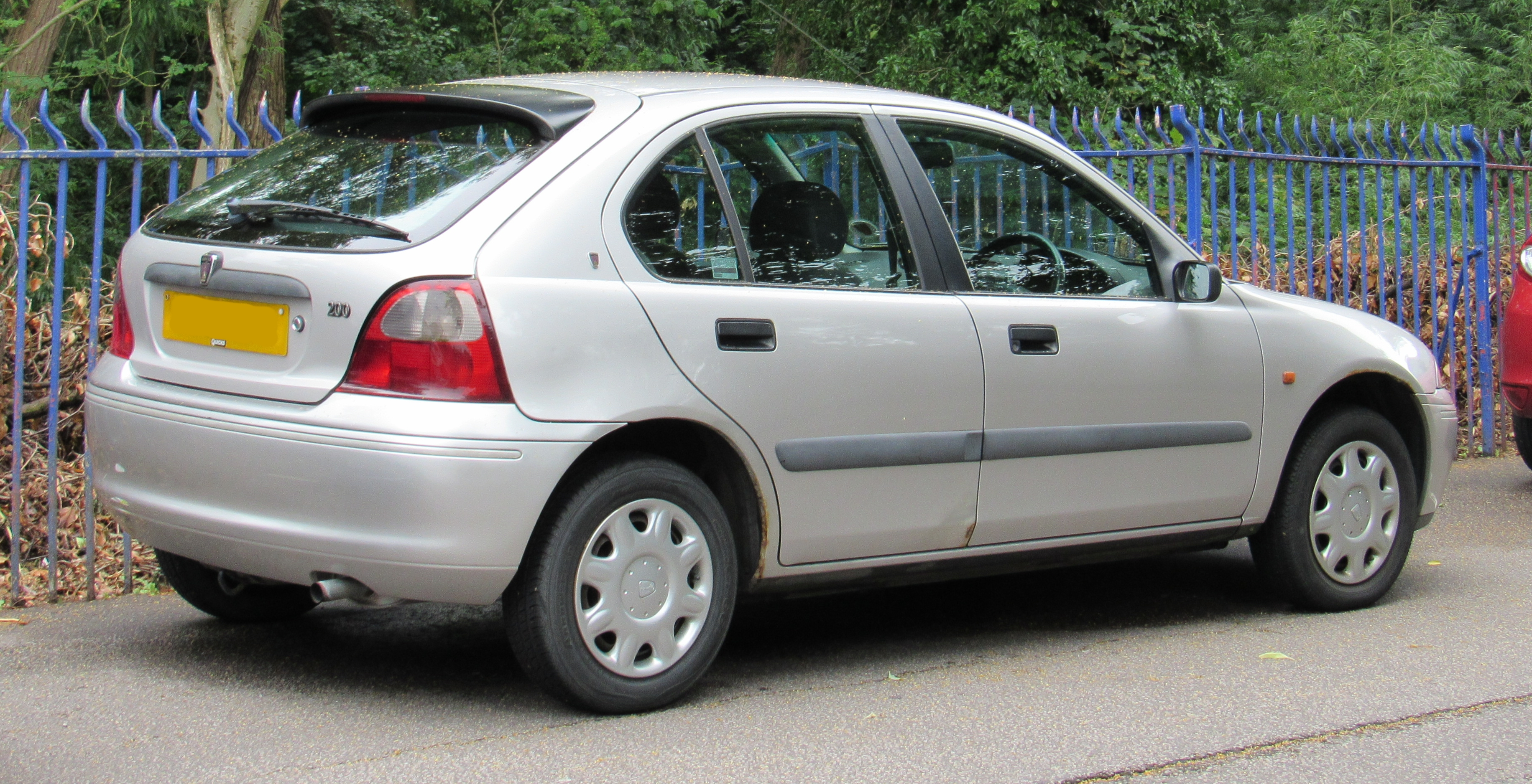 1998 Rover 211i 1.1 Rear Taken at Warwick Train Station